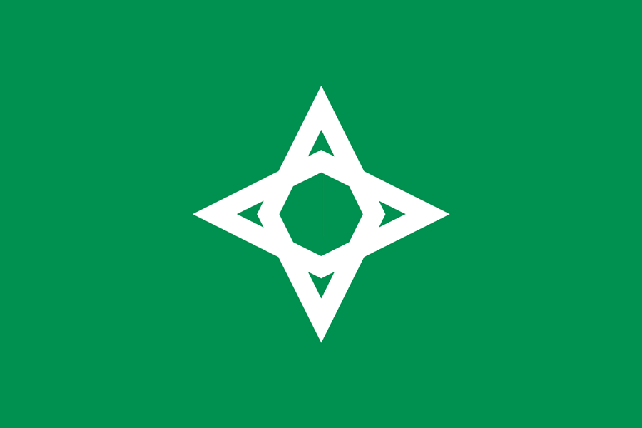 Flag of Morioka, Iwate